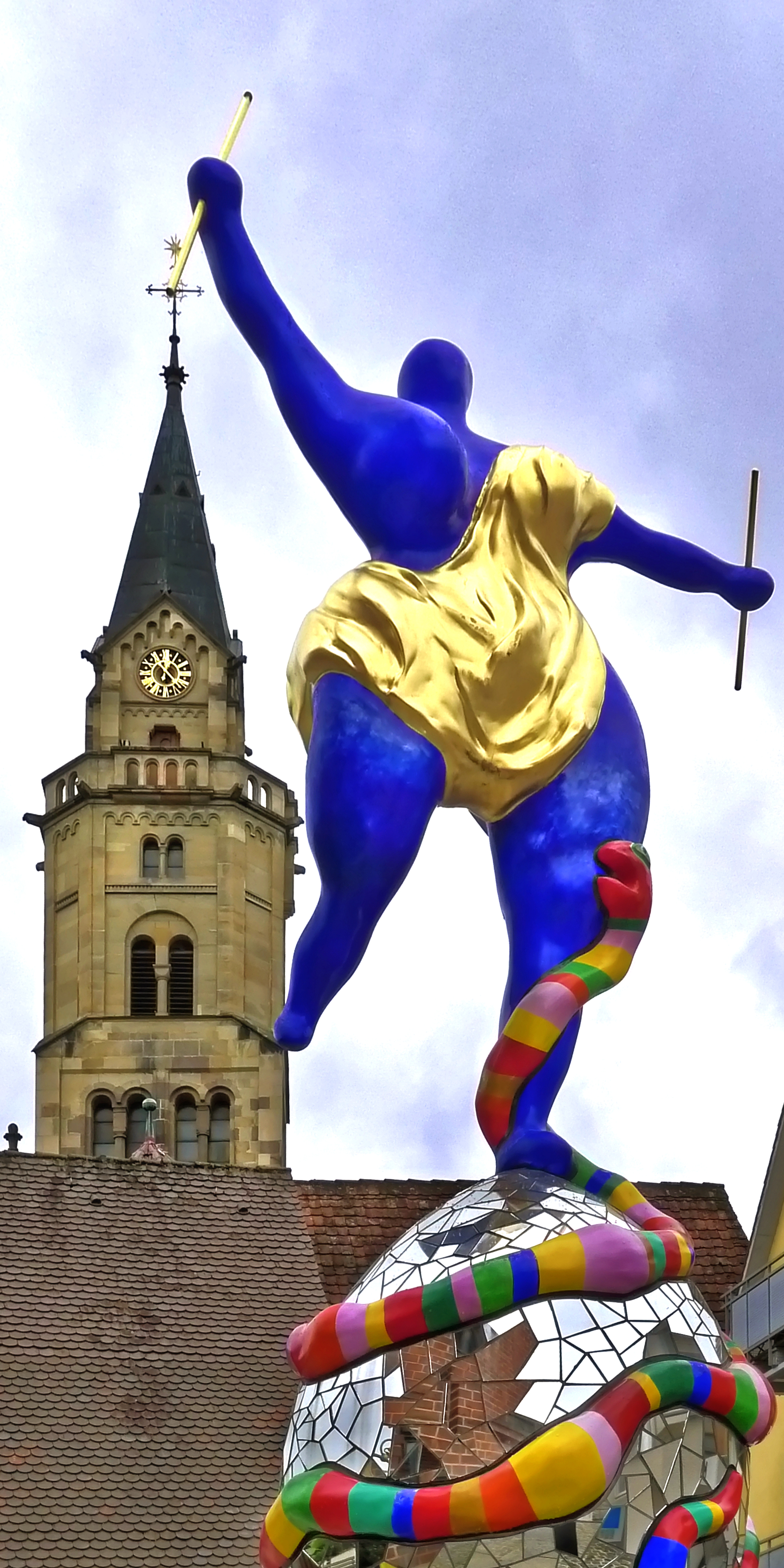 Exhibition "play with me", Niki de Saint Phalle af the Kunsthalle Würth.